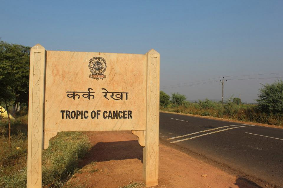 the tropic of cancer line that passes thru madhya pradesh. few kilometers from sanchi